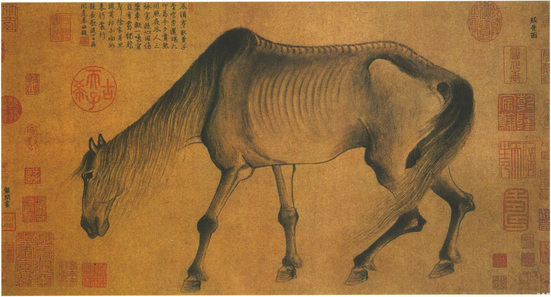 Emaciated Horse (骏骨图), by Chinese artist Gong Kai. Handscroll, ink on paper, 29.9 x 56.9 cm. Osaka Municipal Museum of Fine Arts, Japan. (日本大阪市立美术馆藏). See Zhong-guo hui shu quan ji. (Vol. 4) (中国绘书全集4). 1999. Zhejiang People's Fine Arts Press (浙江人民美术出版社). Beijing. ISBN 7-5340-0910-3 page 44